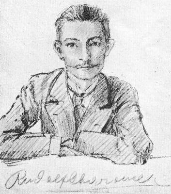 Sketch about chess player Rudolf Charousek (from life by Mrs G.A. Anderson, Chess Pie, 1922, page 67)